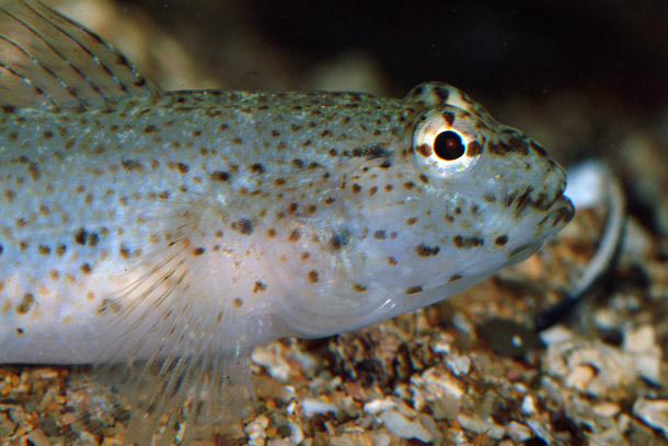 Head of Gobius incognitus.Tuscany, Italy. Photo by Stefano Guerrieri.